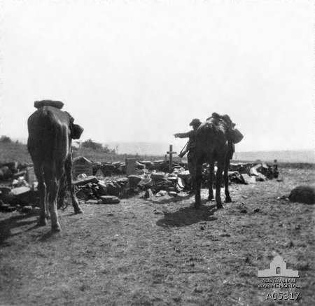 A soldier from the 3rd New South Wales Bushmen contingent at Elands River, South Africa, in 1901. The grave is of one of the men killed during the siege of 4-16 August 1900.